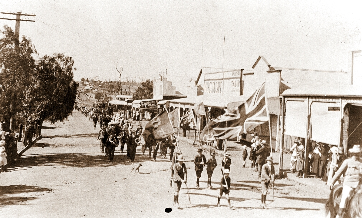 Constable George Chatfield heads up a peace procession in Kalbar to celebrate the end of First World War, 1918. Kalbar Police Station, previously known as Engelsburg was opened April 25, 1899. The town name was changed to Kalbar in September, 1916. It is currently staffed by a Senior Constable. Image PM0875 Courtesy of the Queensland Police Museum.